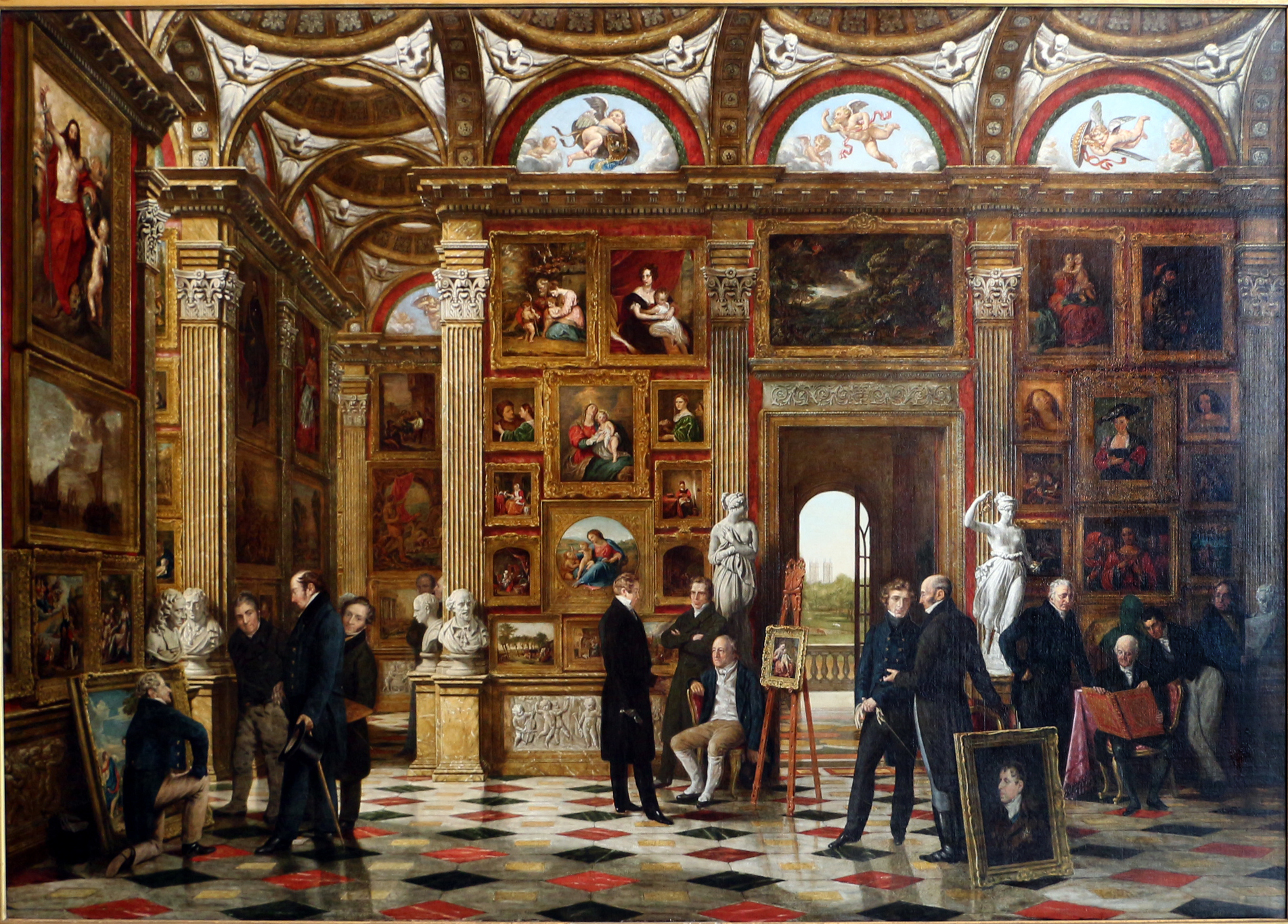 Pieter Christoffel Wonder exhibition in Centraal Museum (2016)